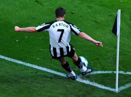 Joey Barton taking a corner kick for Newcastle United.